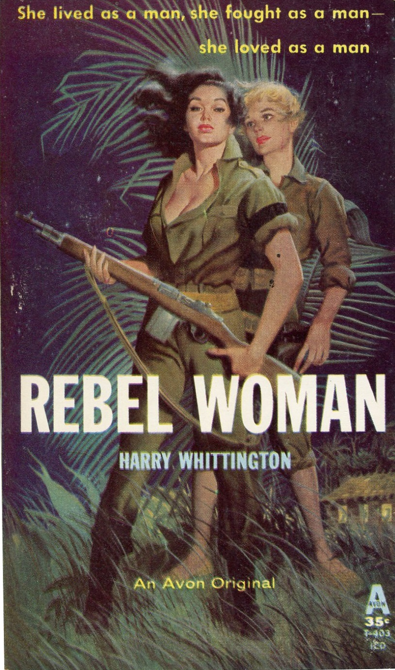 Cover of "Rebel Woman" by Harry Whittington.